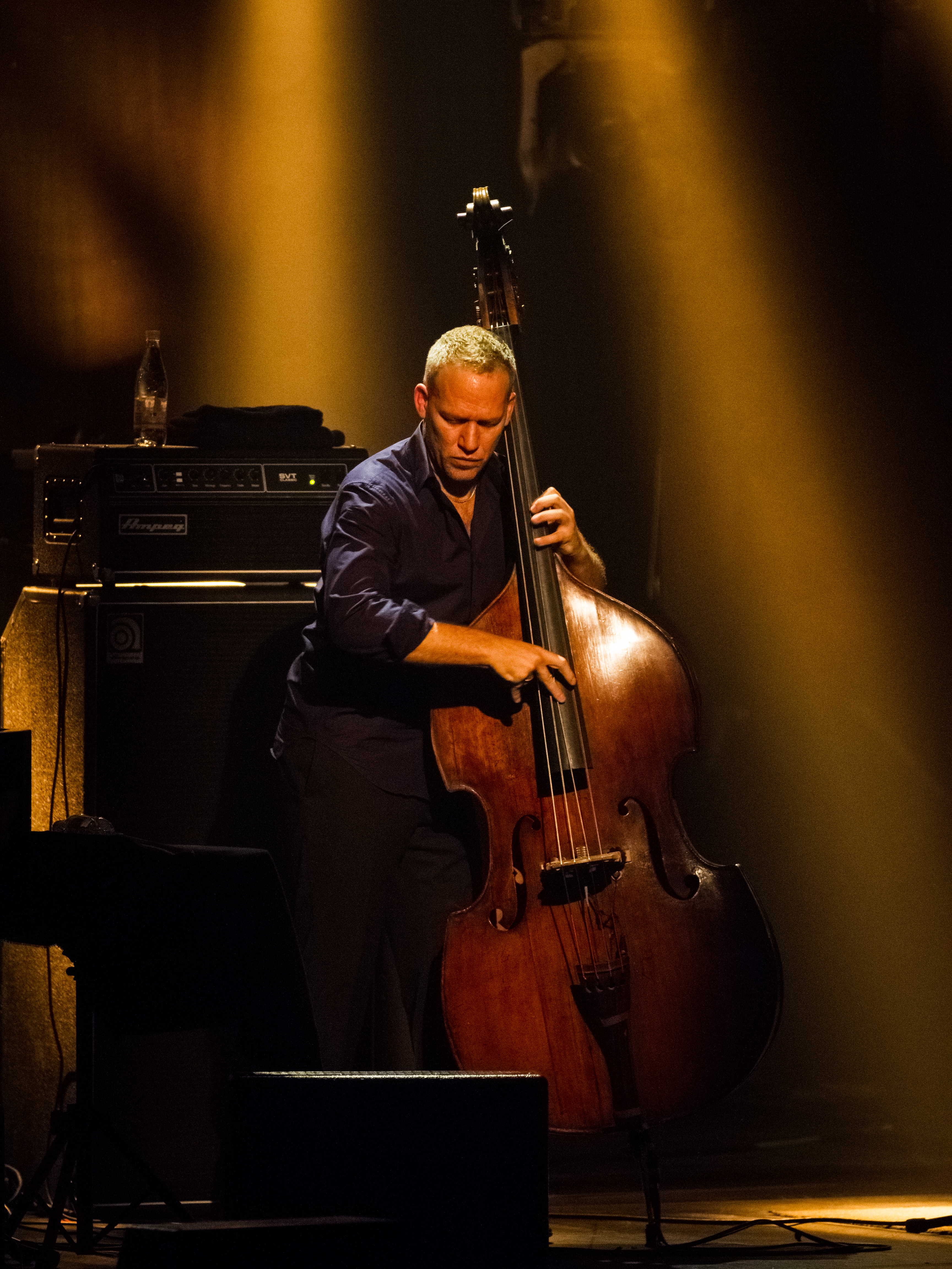 Avishai Cohen - Leverkusener Jazztage 2015